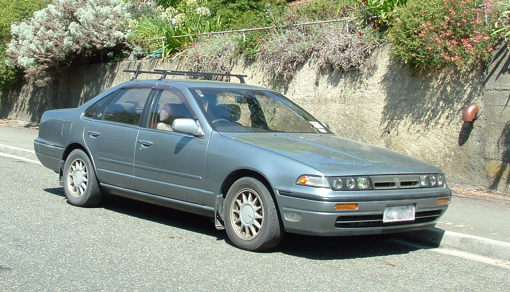 Standard A31 Nissan Cefiro